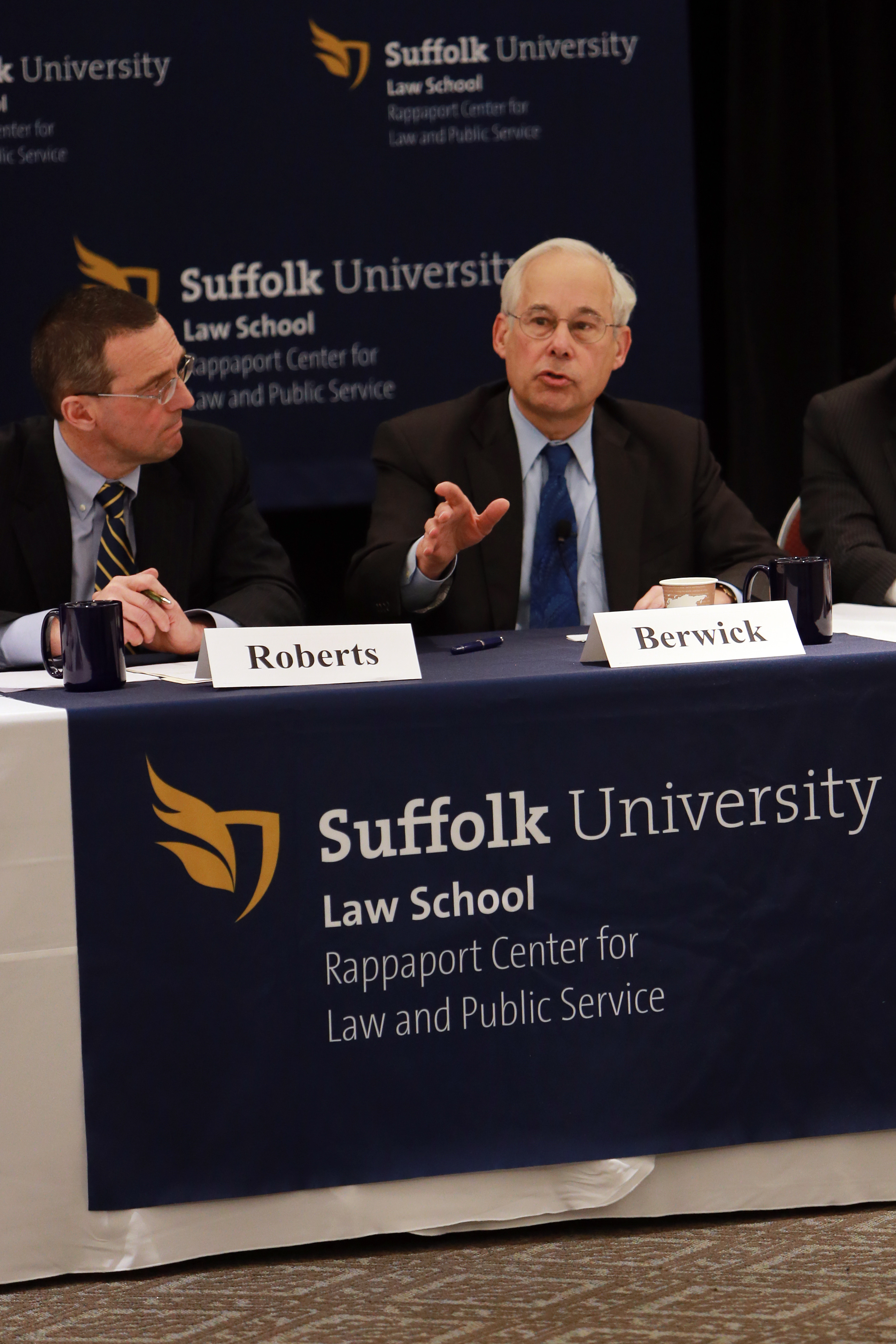 Don Berwick campaigning for Massachusetts governor at the Rappaport Center for Law and Public Service, Suffolk Law School on Jan. 15, 2014